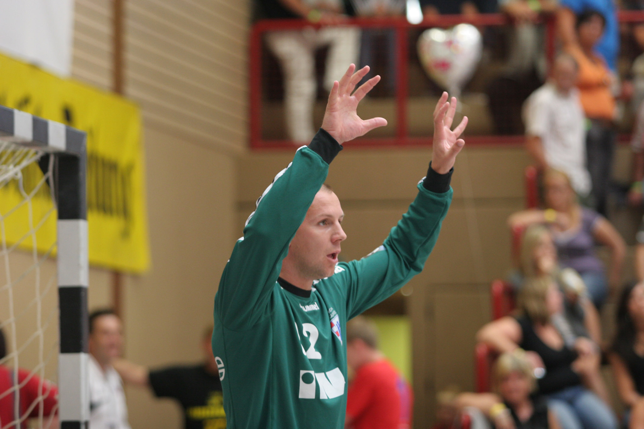 Gorazd Škof, Slowenian handball goalkeeper, playing for RK Zagreb, on August 22nd, 2009 in Ehingen (Germany), during the Schlecker Cup 2009.